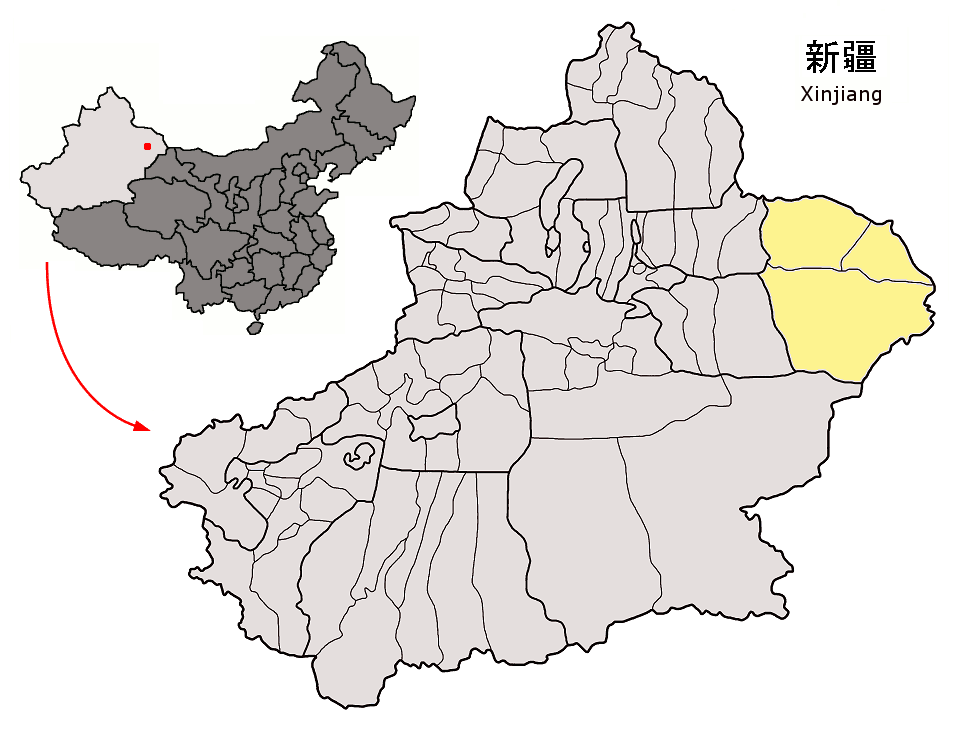 Location of Hami Prefecture (yellow) within Xinjiang autonomous region of China Map drawn in september 2007 using various sources, mainly : Xinjiang Uygur autonomous region administrative regions GIS data: 1:1M, County level, 1990 Xinjiang Counties map from